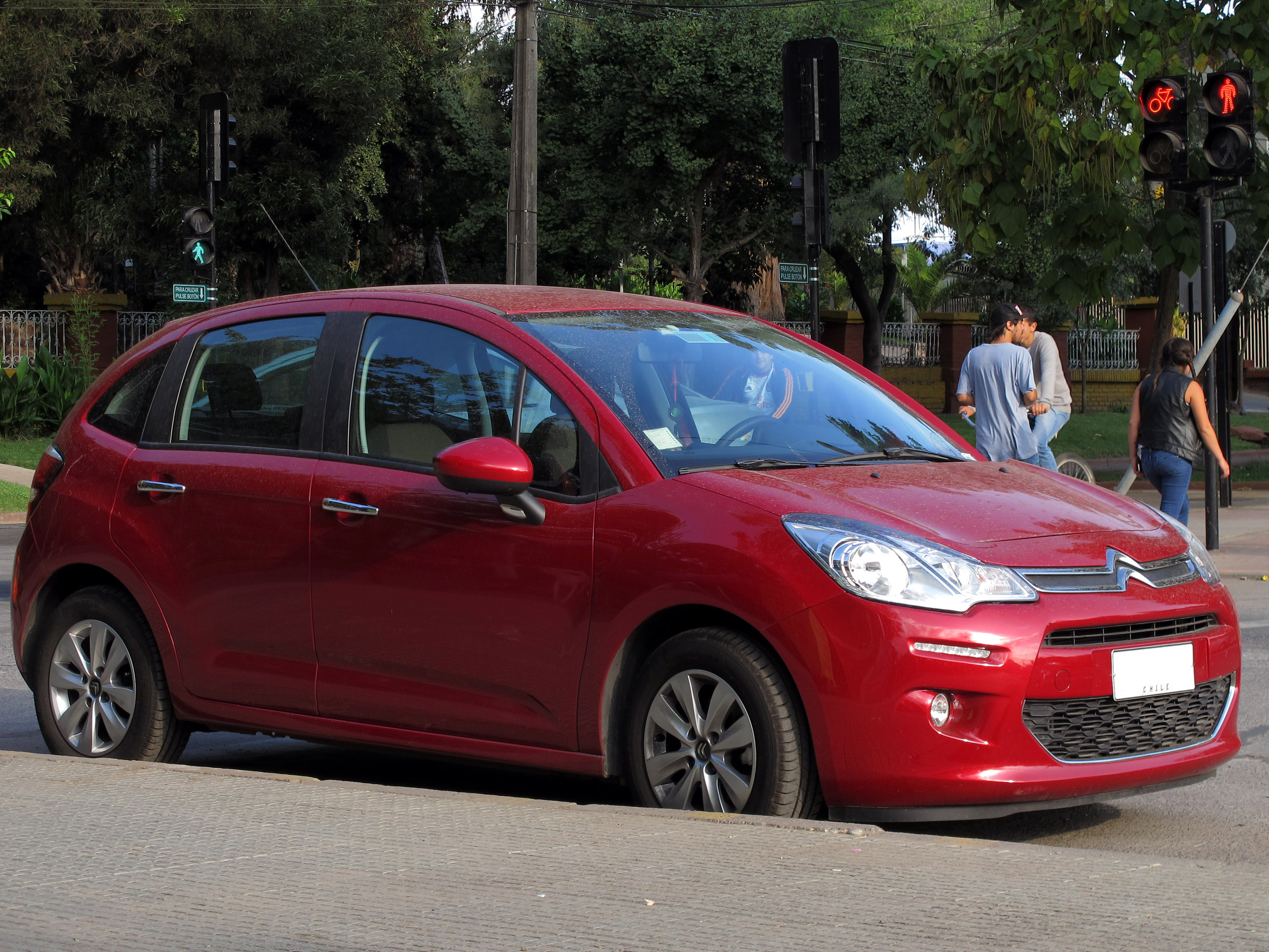 Citroen C3 1.2 VTi Seduction 2015